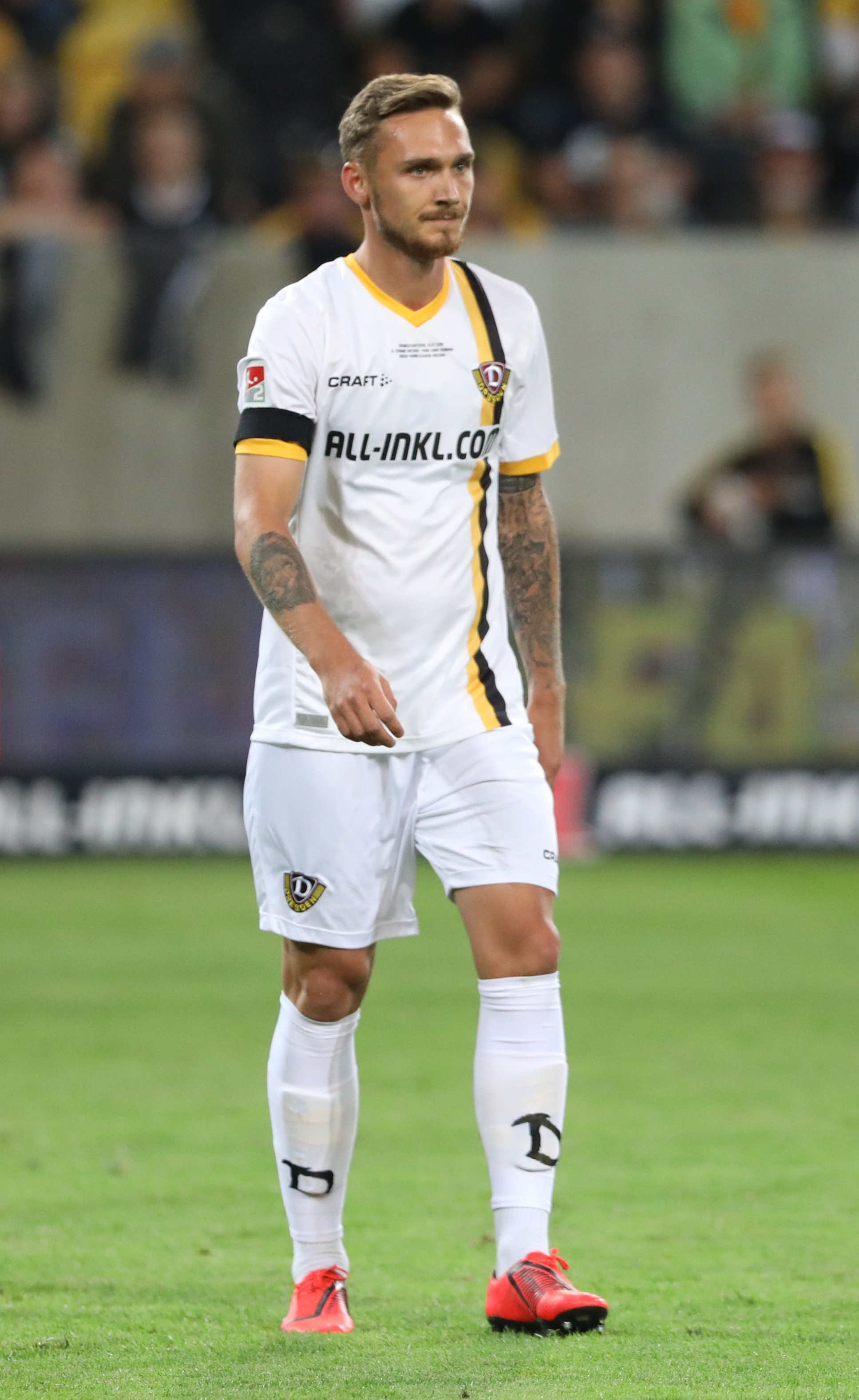 Test game, 17th July 2019: SG Dynamo Dresden vs. Paris Saint-Germain 1:6 (0:3)